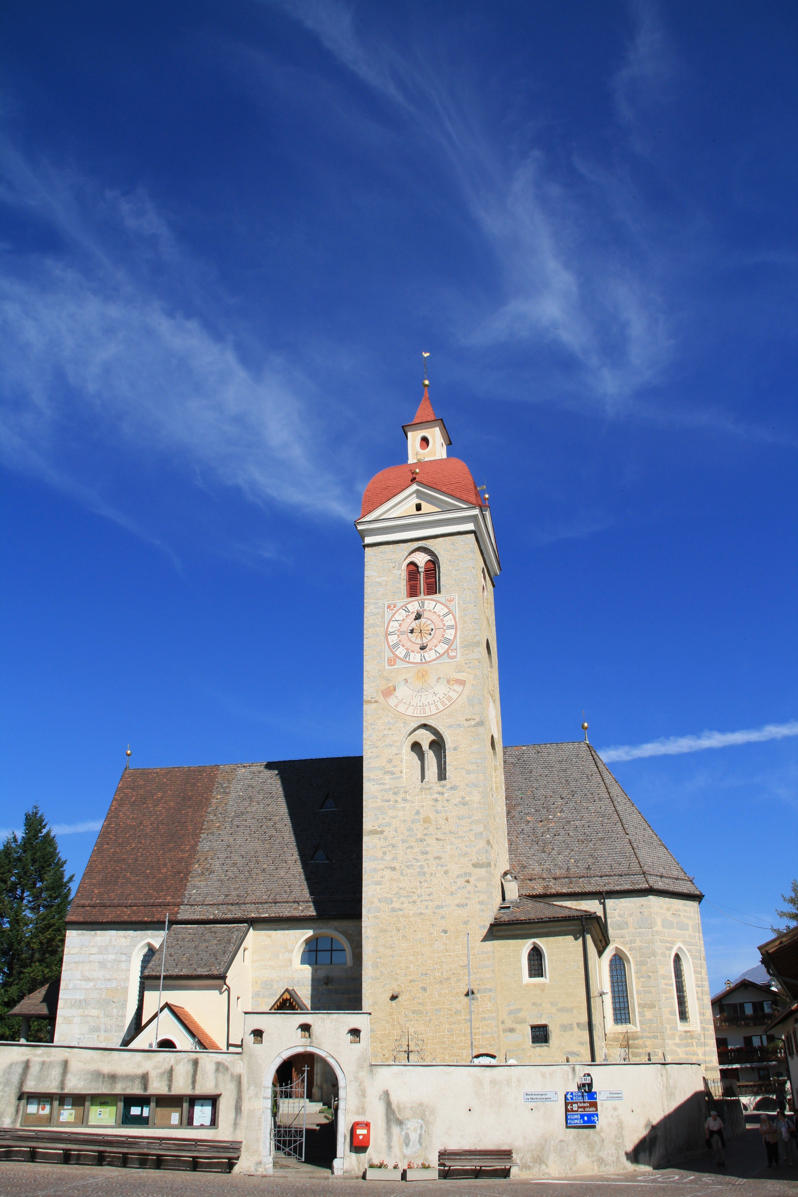 Italy, South Tirol, Natz-Schabs, Schlossergasse, Pfarrkirche Hll. Aposteln Philippus und Jakobus. The first mention of the parish church in Natz dates back to 1157 but the church was consecrated in 1208 by the prince-bishop Konrad von Rodank in honour of Saint Philip and Saint Walpurga. The present church was completed in 1484 in Late Gothic and consecrated once again to the Saints Apostles Philip and James. The bell tower was built in 1400 with granite blocks; in 1635 was damaged by fire and in 1686 was covered with a dome in Baroque style. The high altar is work by Peter Lapper of Natz made in 1855. In the throne of the high altar are the statue of the Madonna, Saint Agnes and Saint Ursula which are Gothc works of 1499 attributed to Michael Parcher; the statues of St. Philip and St. James are by F. X. Renn of Imst made in 1857. The painting of the right lateral altar represent the Baptism of Jesus and the left side altar correspond to the Holy Family, both works are by Michael Lackner of Bruneck. The first organ was installed on May 1st, 1909; the present one has been built by Orgelbau Pirchner of Steinach am Brenner and has 16 registers and 1250 pipes and was inaugurated on May 1st, 1990.